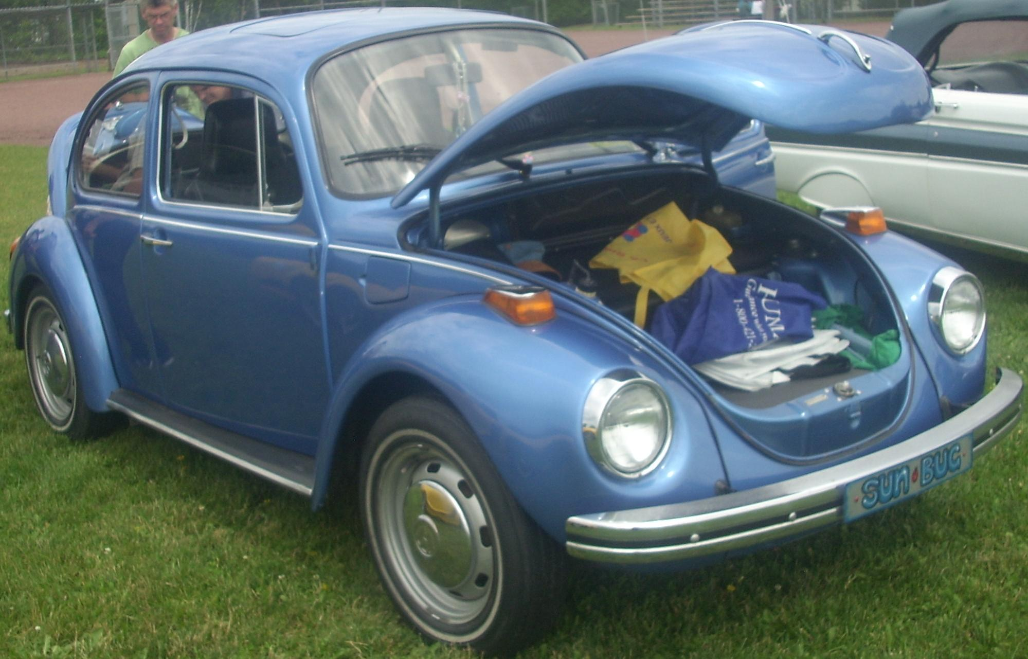 Volkswagen Beetle photographed in St. Lazare, Quebec, Canada at the 2010 St. Jean Baptiste Classic Car Show.